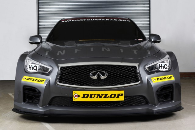 Press photo of the Infiniti Q50 NGTC